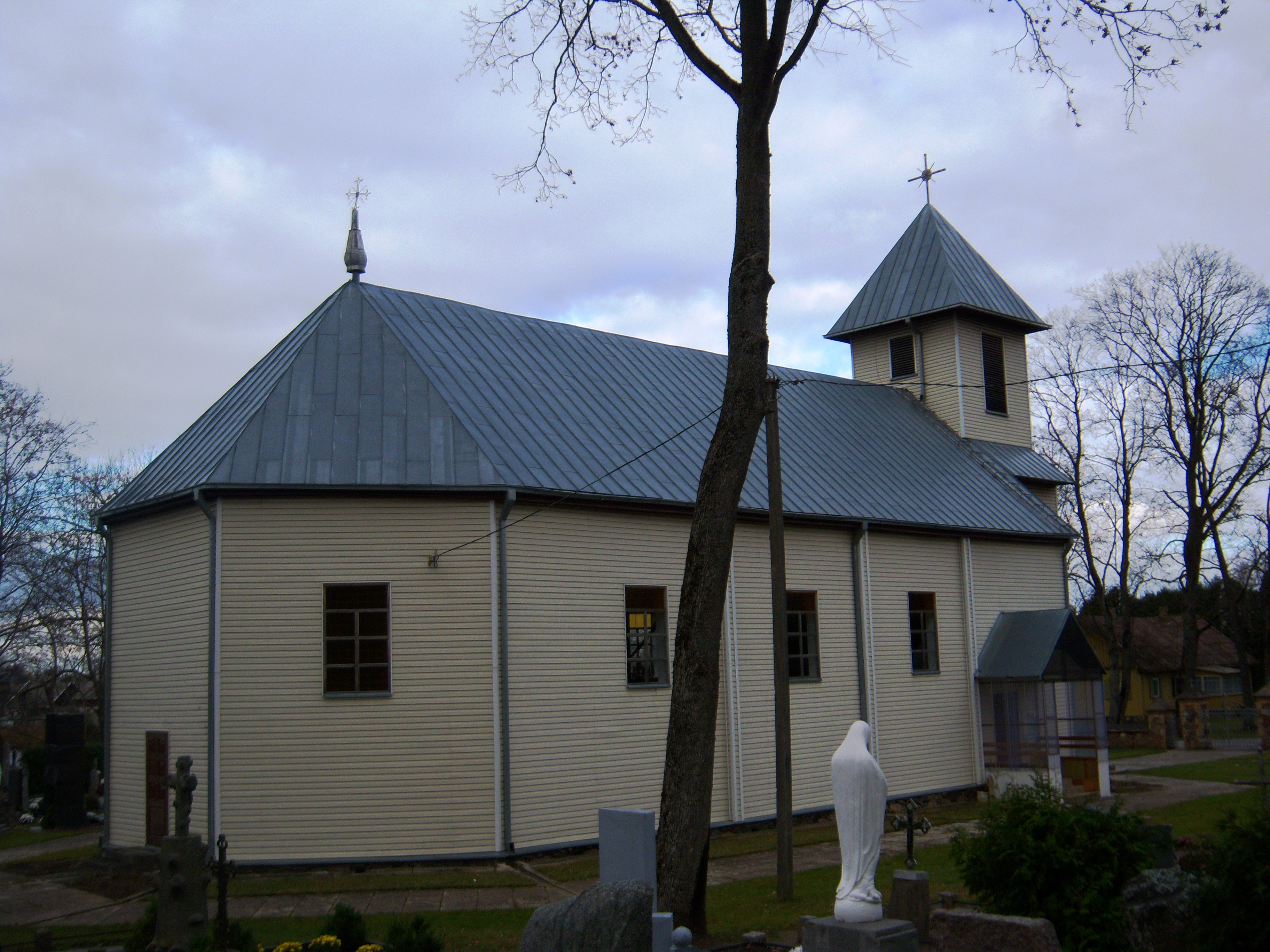 Roman Catholic Church in Ėriškiai, Panevėžys District, Lithuania